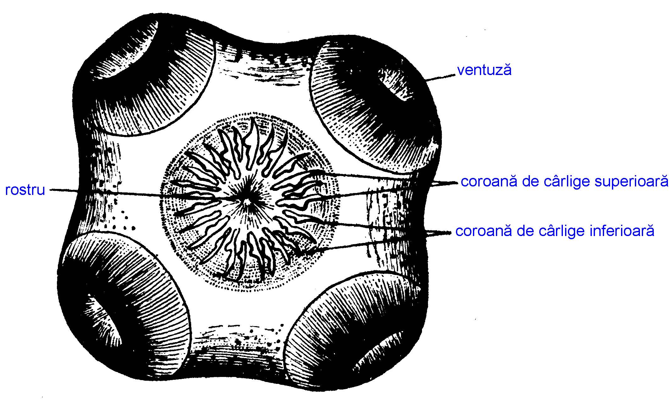 Taenia solium. Rostrum, anterior view